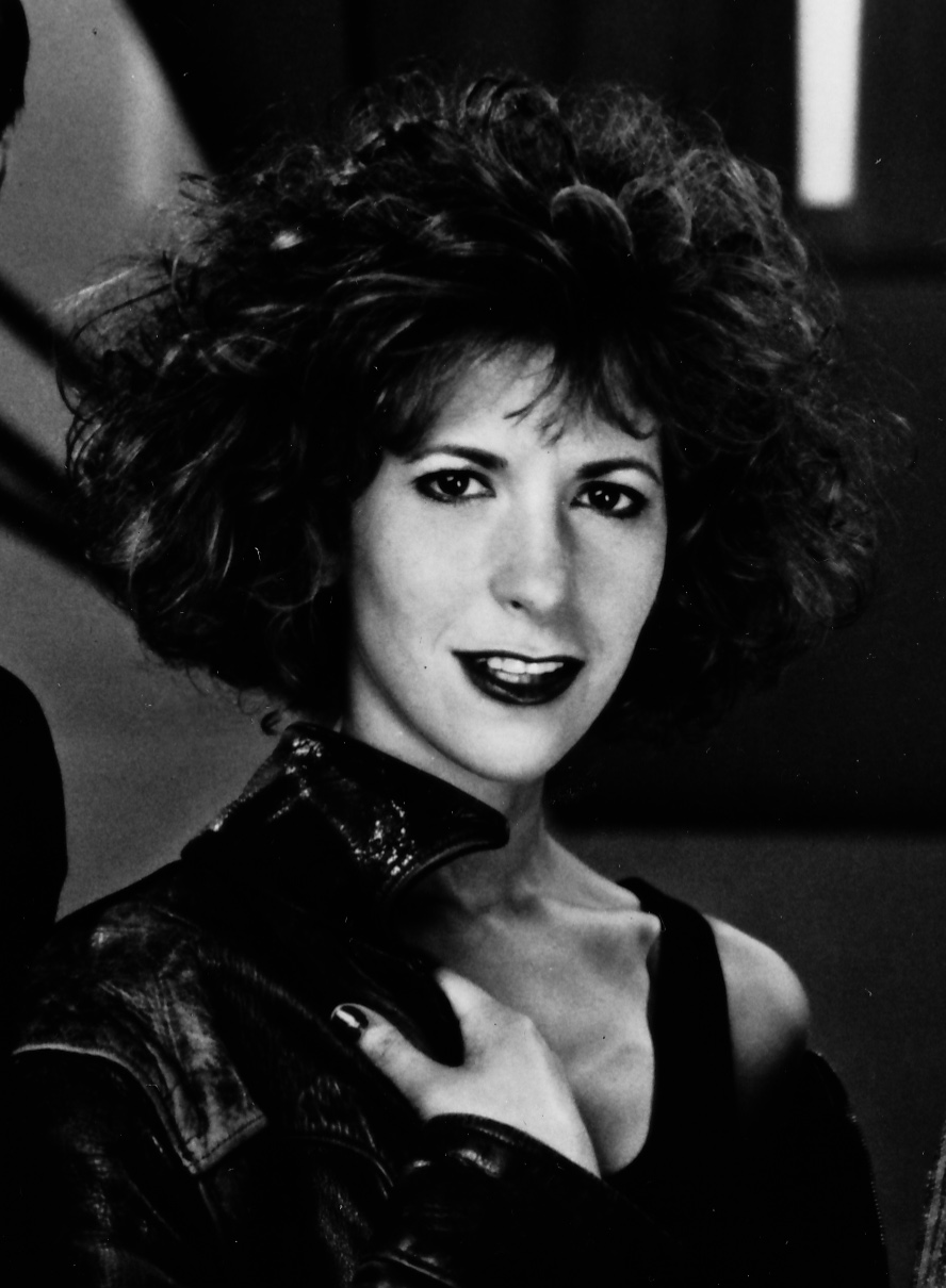 Publicity photo of Ellen Greene for the film Glory! Glory!.